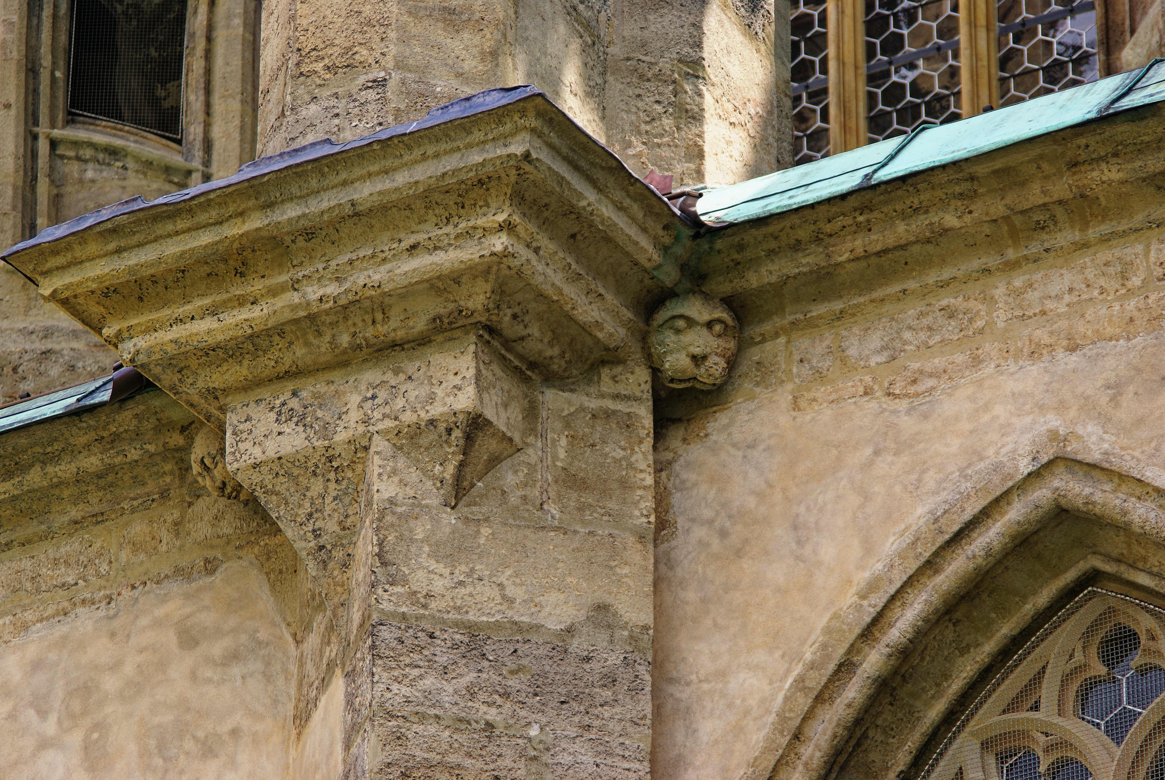 Kutná Hora - Out of every corner the devil is driven away by the devil - View SE